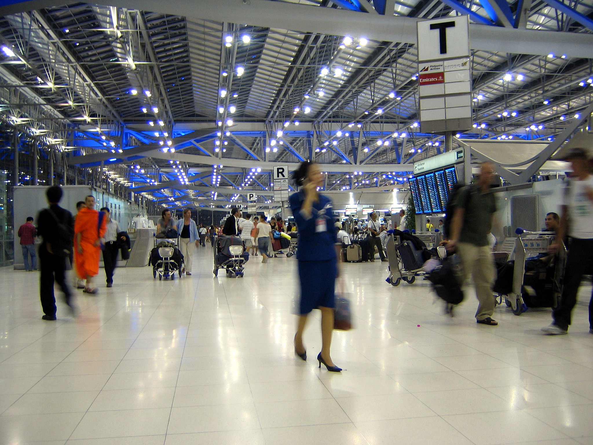 Suvarnabhumi Airport Bangkok, Thailand. Departure Hall.